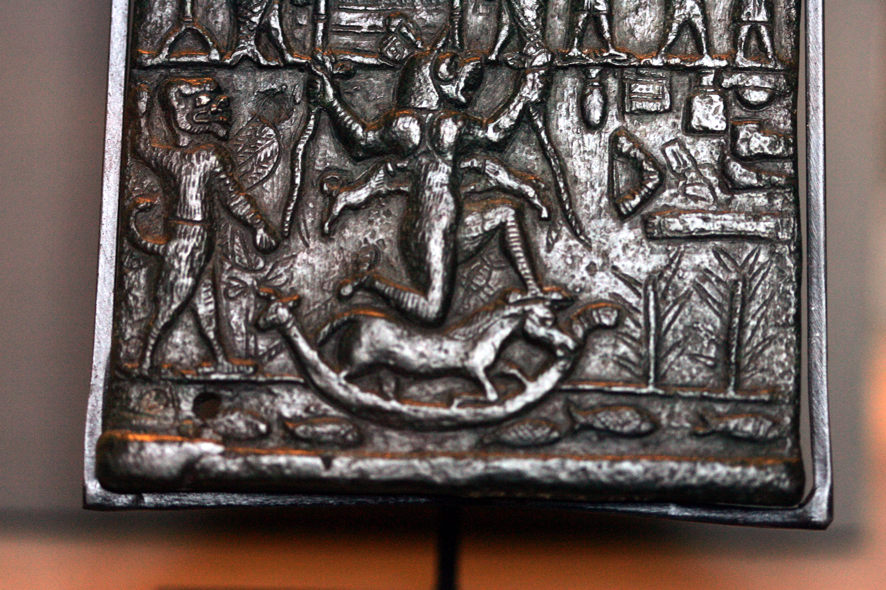 ArtistUnknownDescription Protection plaque against Lamashtu [1] Neo-Assyrian era Bronze Dimensions3.80 cm high, 8.80 wide, 2.50 cm deepCurrent location (Inventory)Louvre Museum Native nameMusée du LouvreLocationParisCoordinates48° 51′ 37″ N, 2° 20′ 15″ E Established1793Website control : Q19675 VIAF: 257711507 ISNI: 0000 0001 2260 177X ULAN: 500125189 LCCN: n80020283 NLA: 35912436 WorldCat Richelieu, Rez-de-chaussée, Mésopotamie - Syrie du Nord. Assyrie : Til Barsip, Arslan Tash, Nimrud, Ninive, Salle 6Accession numberAO 22205Source/PhotographerRama Protection plaque against Lamashtu [1] Neo-Assyrian era Bronze